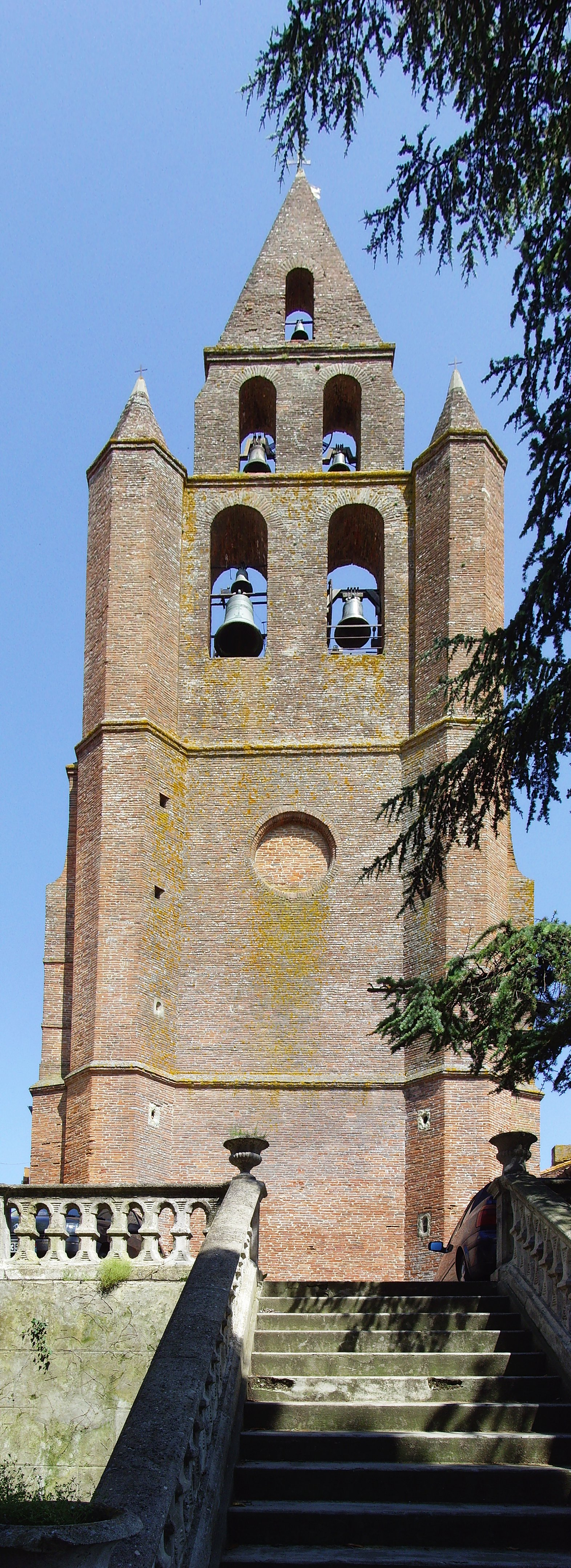 Nailloux (Haute-Garonne,France) - The tower of St-Martin church